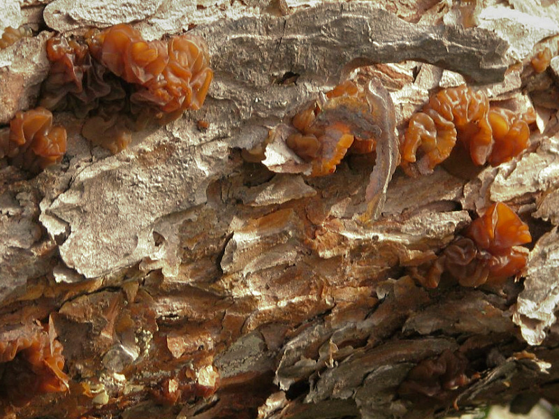 Exidia saccharina (Alb. Schwein. : Fr.) Fr. Location: Degerberget, Hörnefors, Västerbotten, Sweden For more information about this, see the observation page at Mushroom Observer.